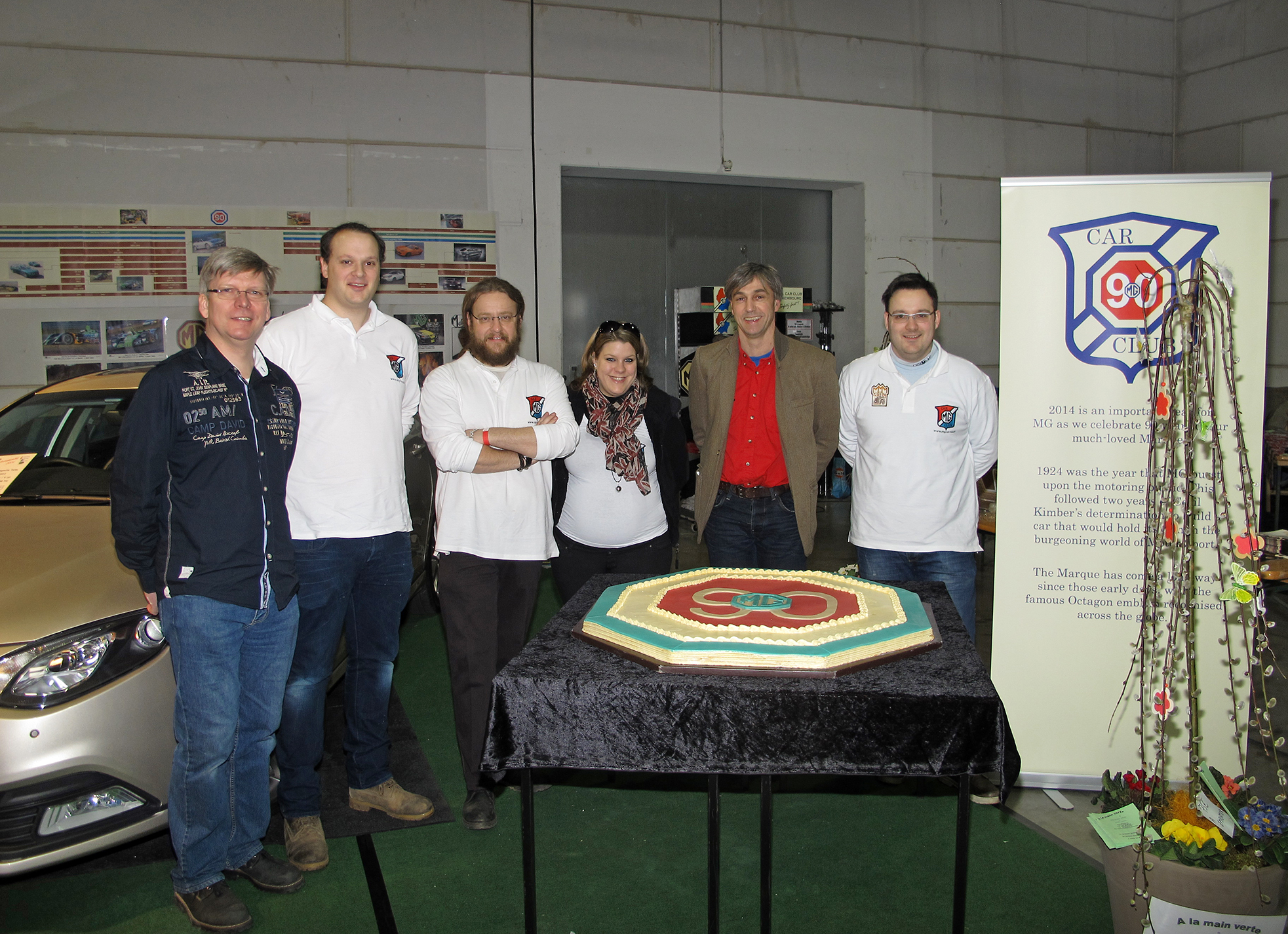 A part of the committee of the MG Car Club Luxembourg on their booth at the Autojumble 2014